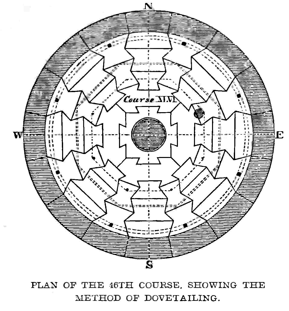 A cross-section of the Eddystone lighthouse, designed by John Smeaton, off Plymouth in England, showing the innovative dovetail design to resist the force of the sea.